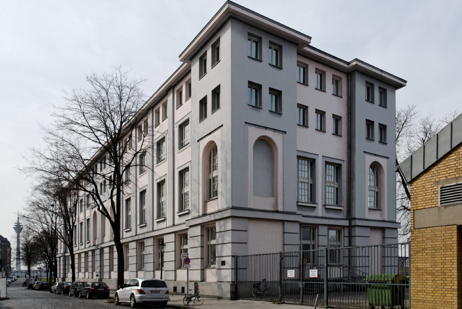 House Reuterkaserne 1 in Düsseldorf-Altstadt, Germany